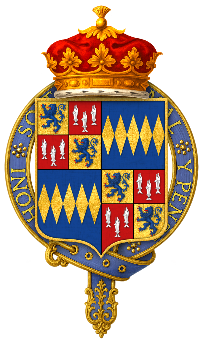 Garter encircled shield of arms of Algernon Percy, 6th Duke of Northumberland, KG, as displayed on his Order of the Garter stall plate in St. George's Chapel.